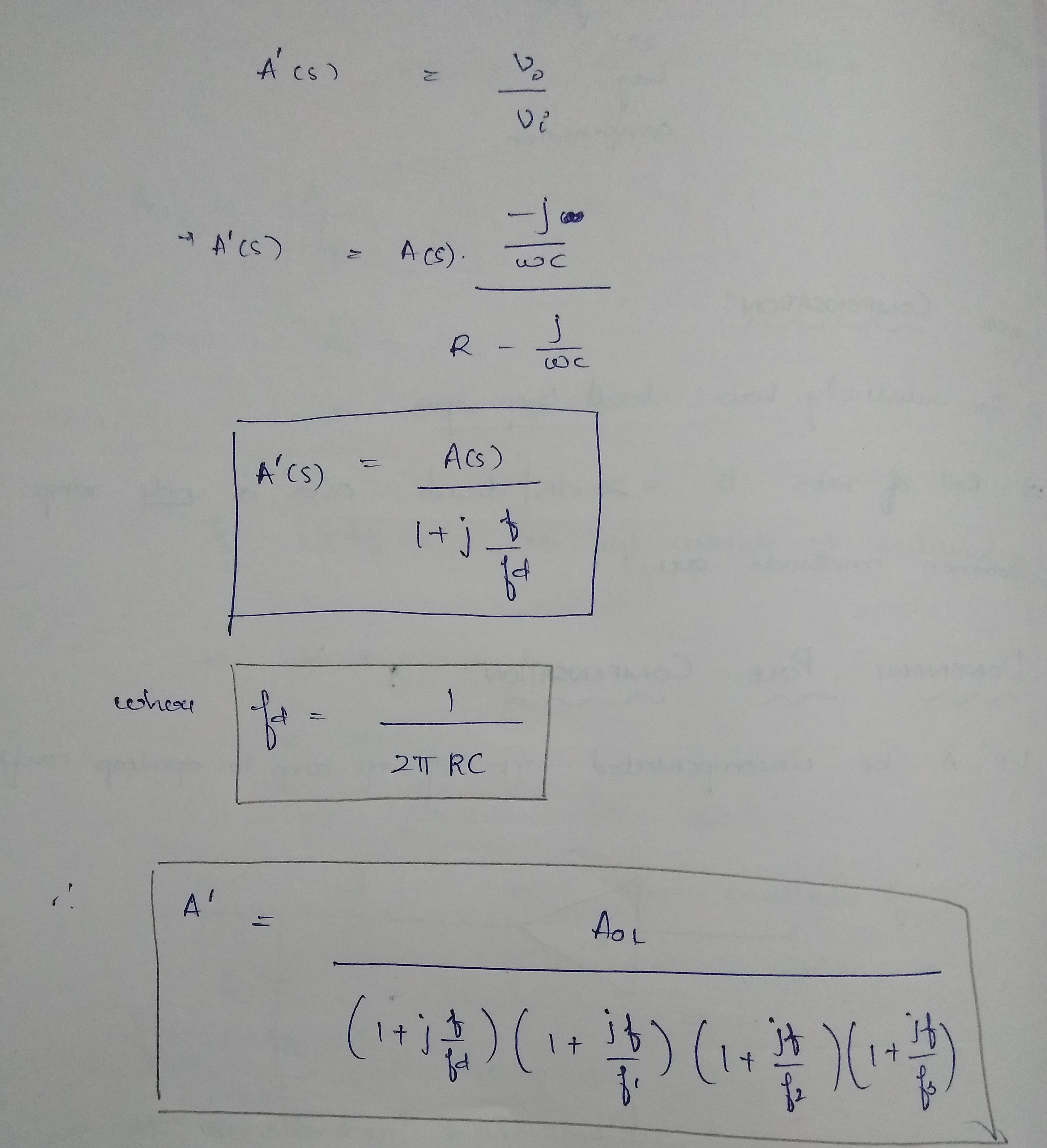 This file is the derivation of Transfer Function of an open loop Op-Amp after dominant pole compensation.